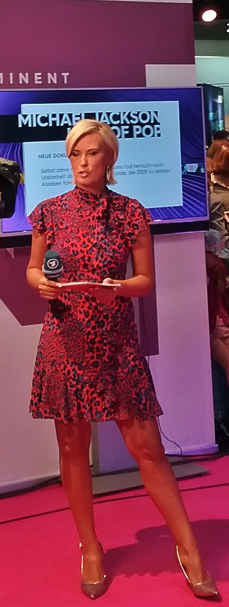 Kamilla Senjo at IFA 2019 in Berlin